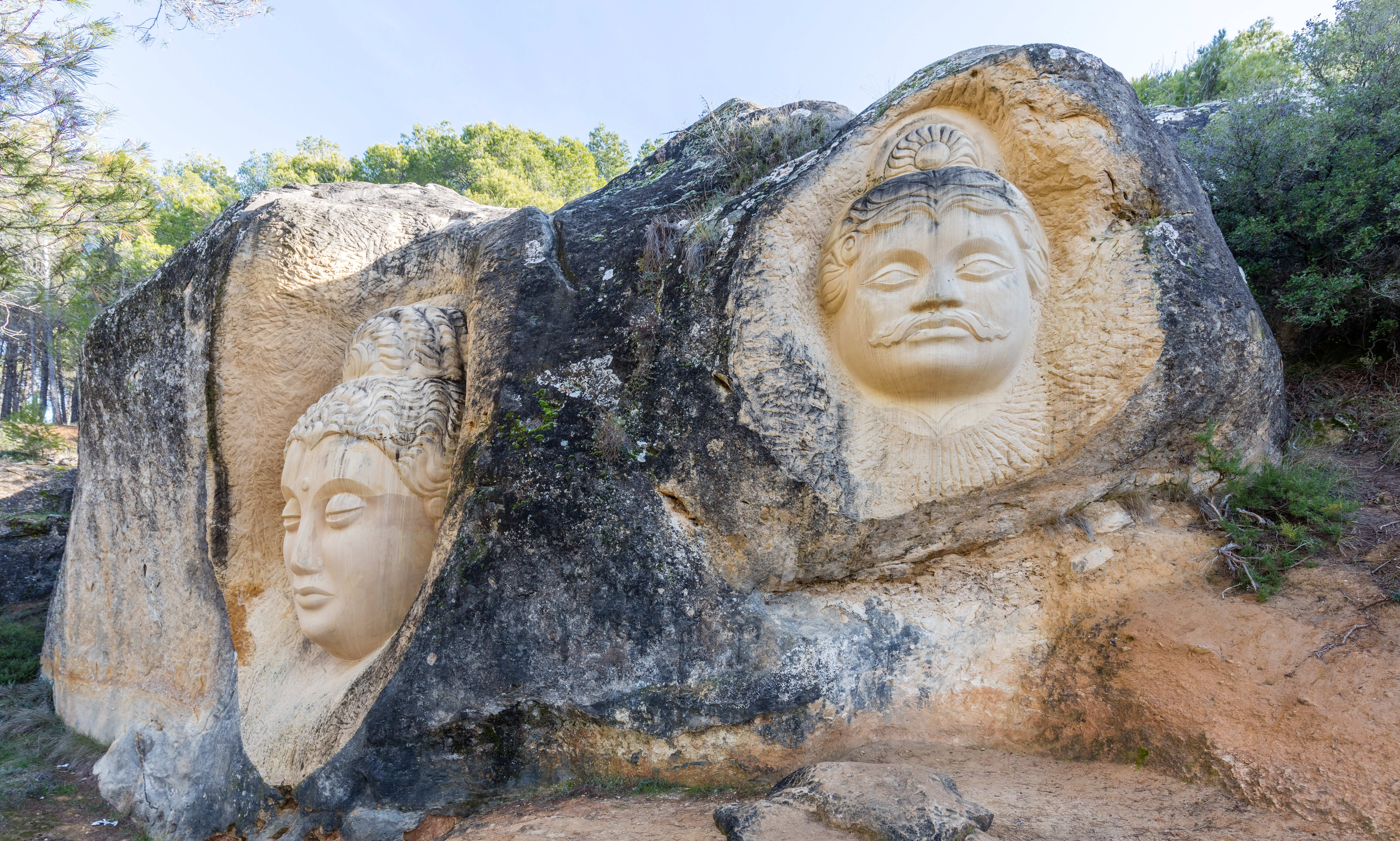 Ruta de las Caras, Cuenca, Spain